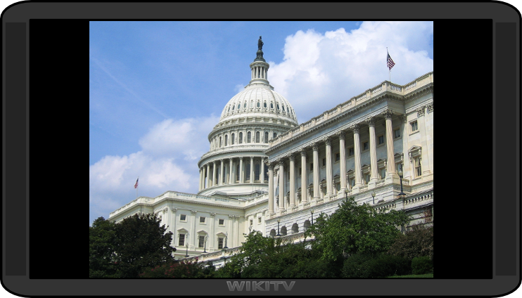 Aspect Ratio 4:3 pillarbox